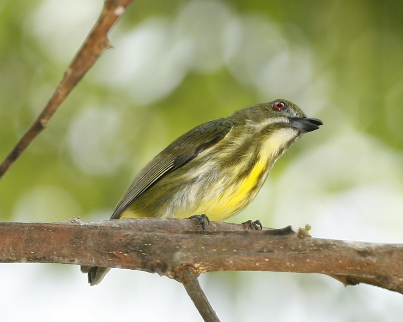 Yellow-breasted Flowerpecker Prionochilus maculatus oblitus Panti Forest, Johor, Malaysia 13th. September 2006